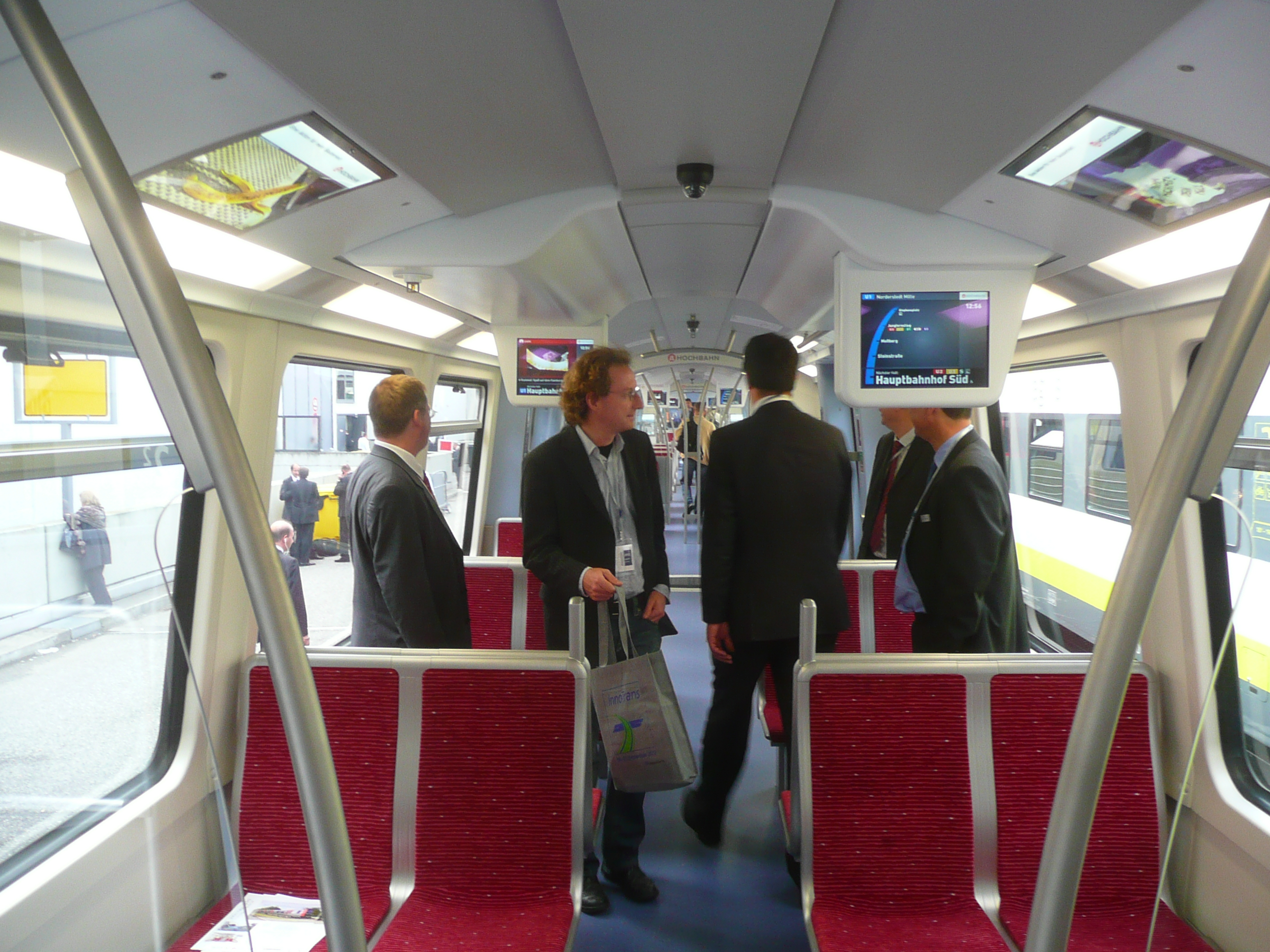 Interior of Hamburger Hochbahn DT5 unit No. 302-3 at InnoTrans 2010 Berlin.